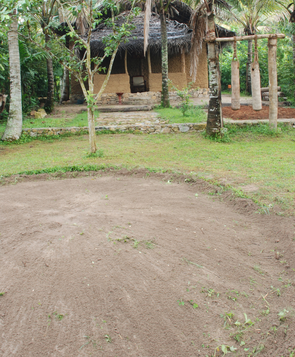 angam maduwa or practing place for angampora